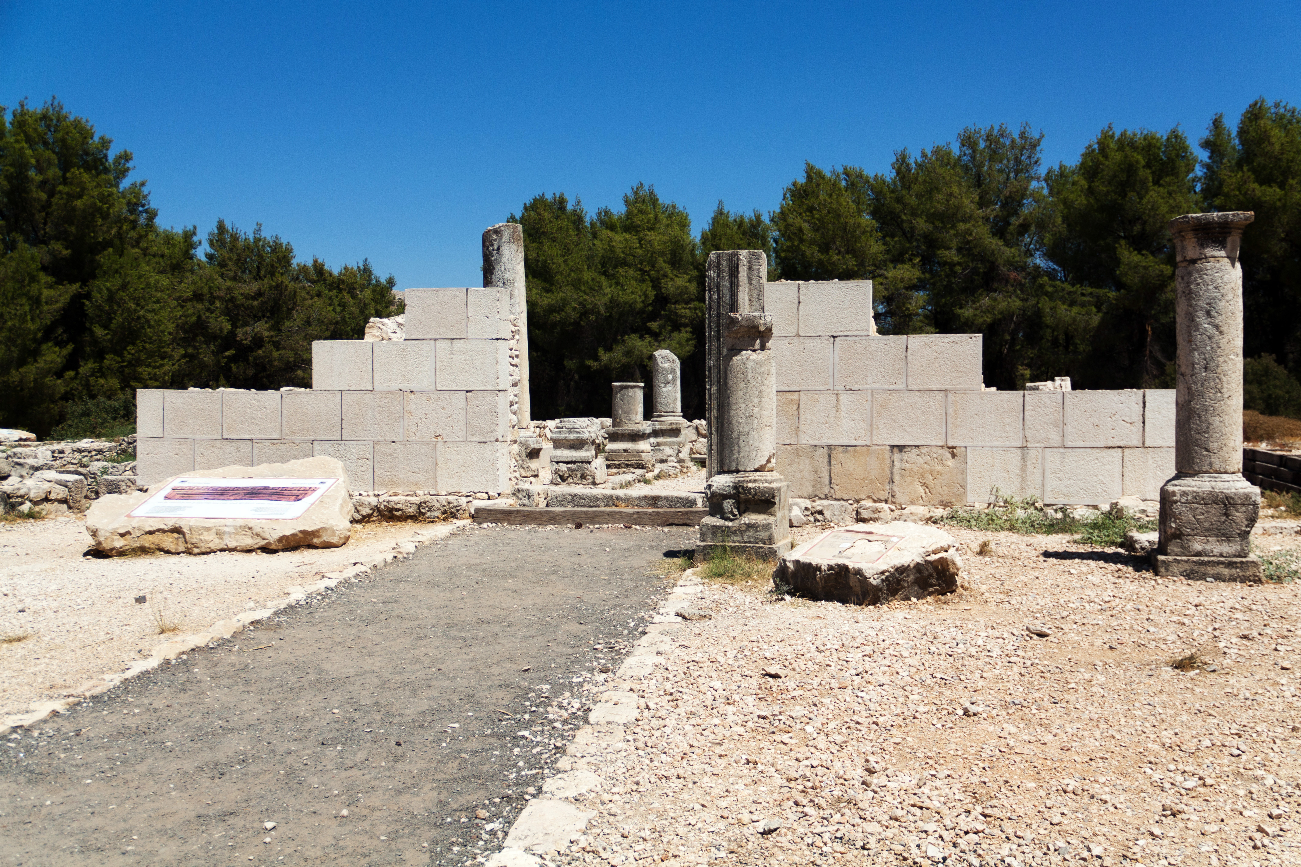 Ancient synagogue of Nevoraya